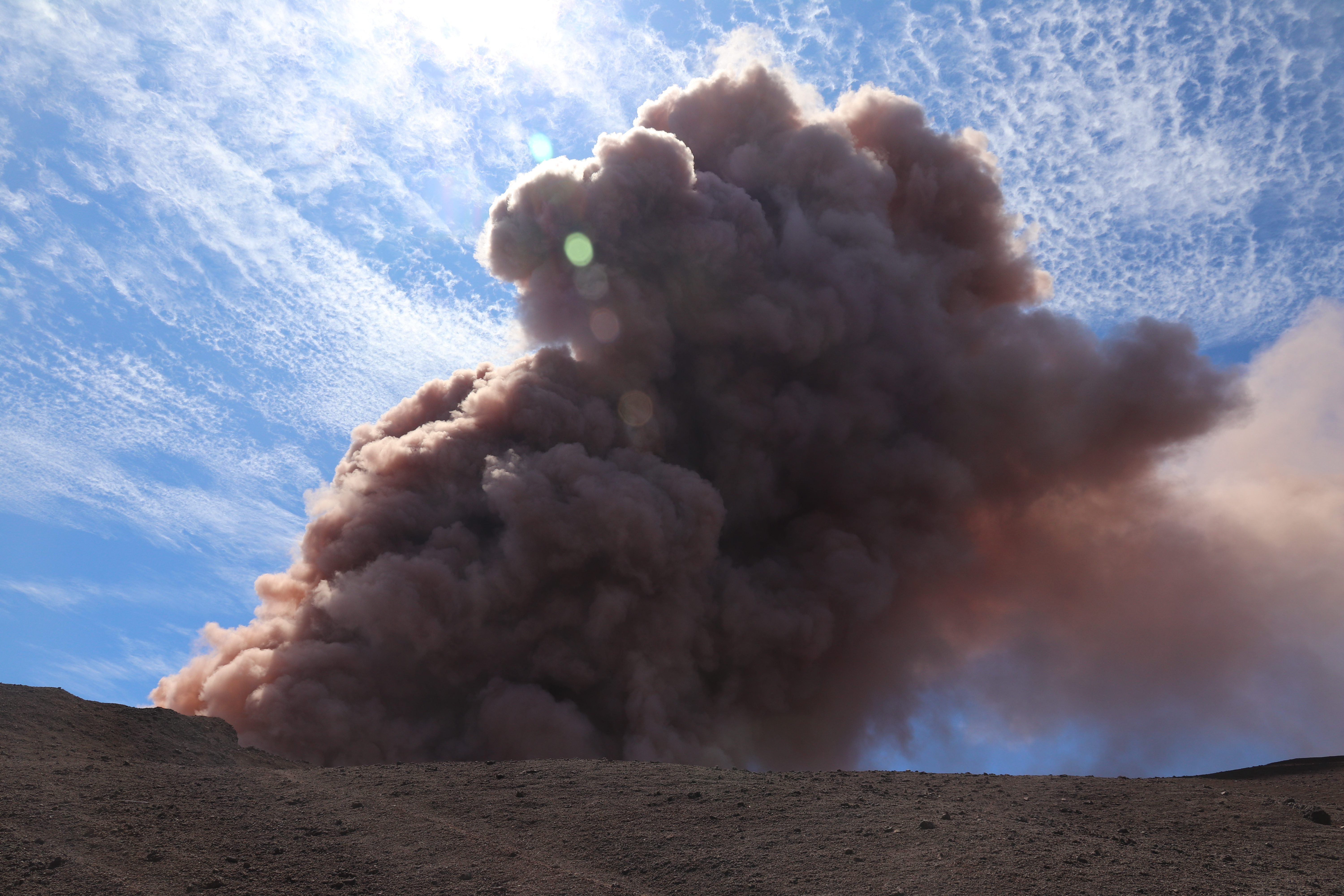 While HVO geologists were working on Pu‘u ‘Ō‘ō, a magnitude-5.0 earthquake shook the ground around the cone. Moments later, a collapse occurred in the crater of Pu‘u ‘Ō‘ō, creating a robust, reddish-brown ash plume.